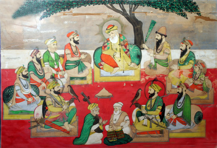 Guru Nanak with the Other Nine Gurus, Bhai Puran Singh